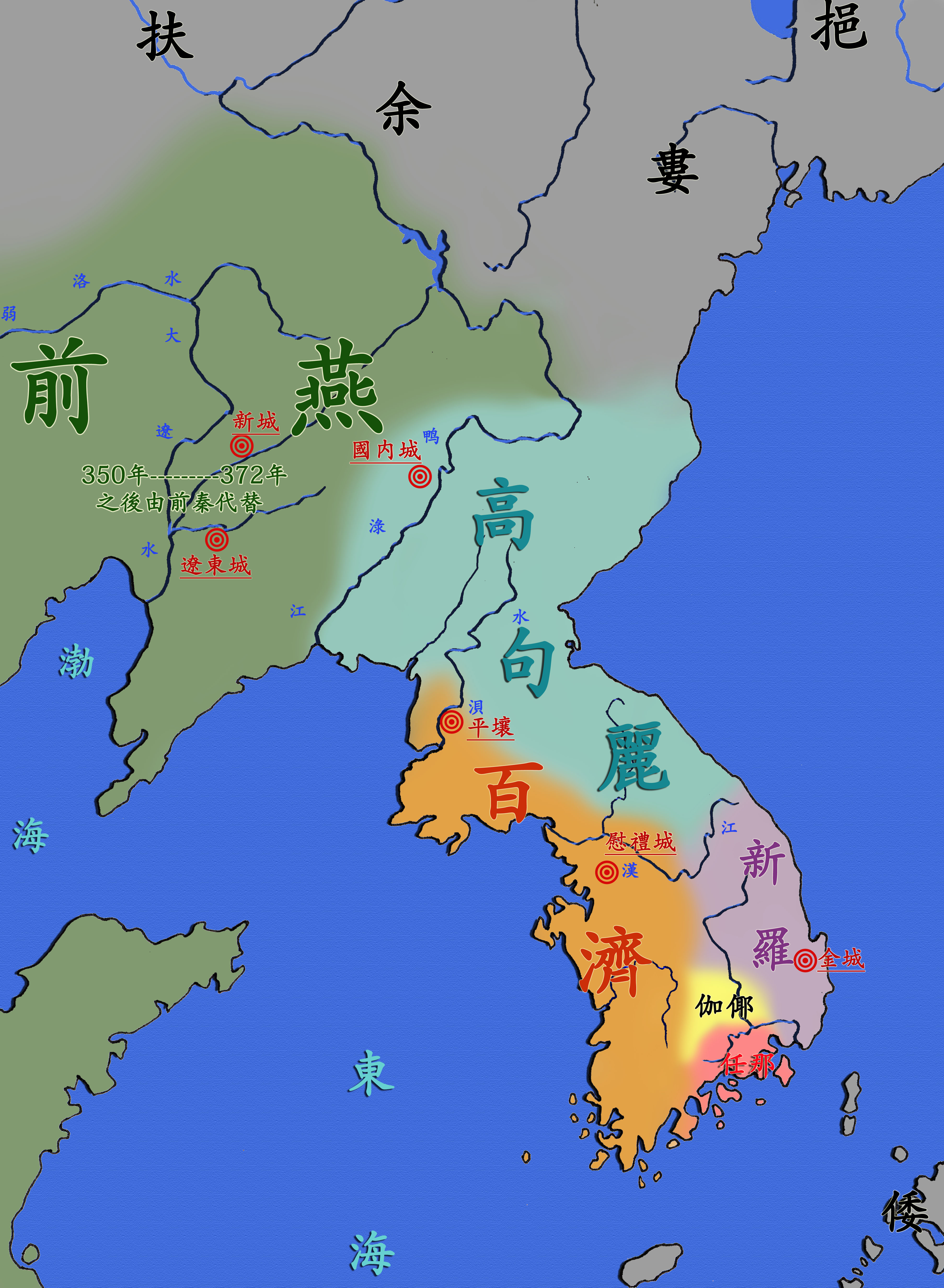 Map of Baekje